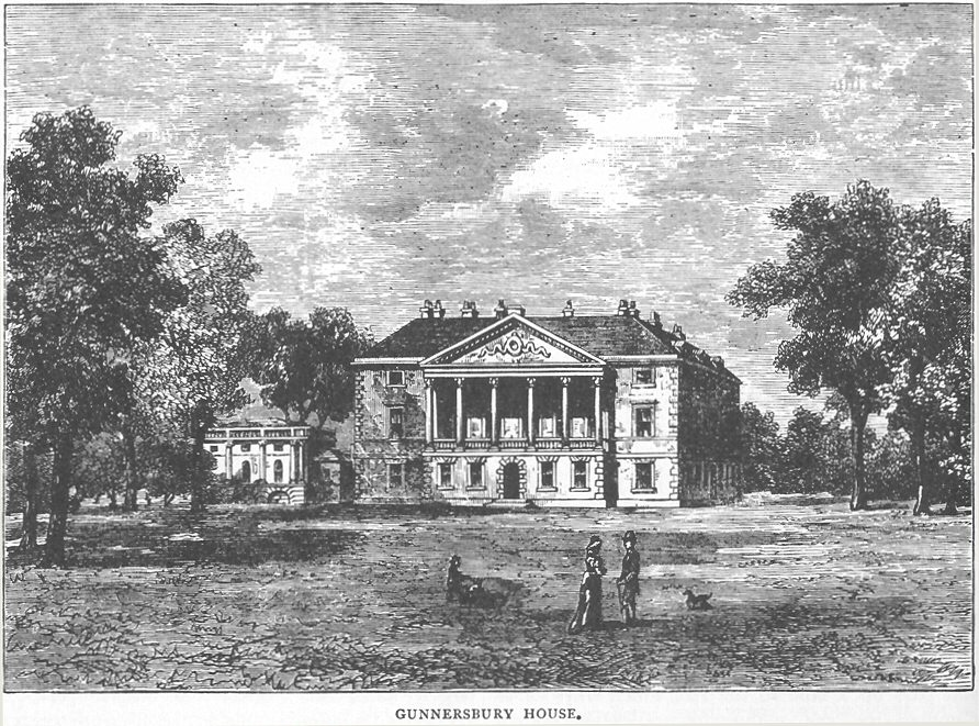 Scanned from "Greater London" by Edward Walford, Published 1883/4; Engraving made c 1750 therefore out of copyright.